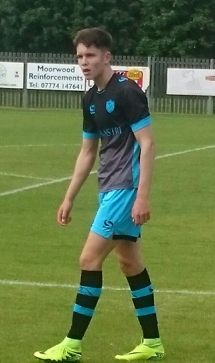 Sheffield FC vs Sheffield Wednesday U21 FC friendly